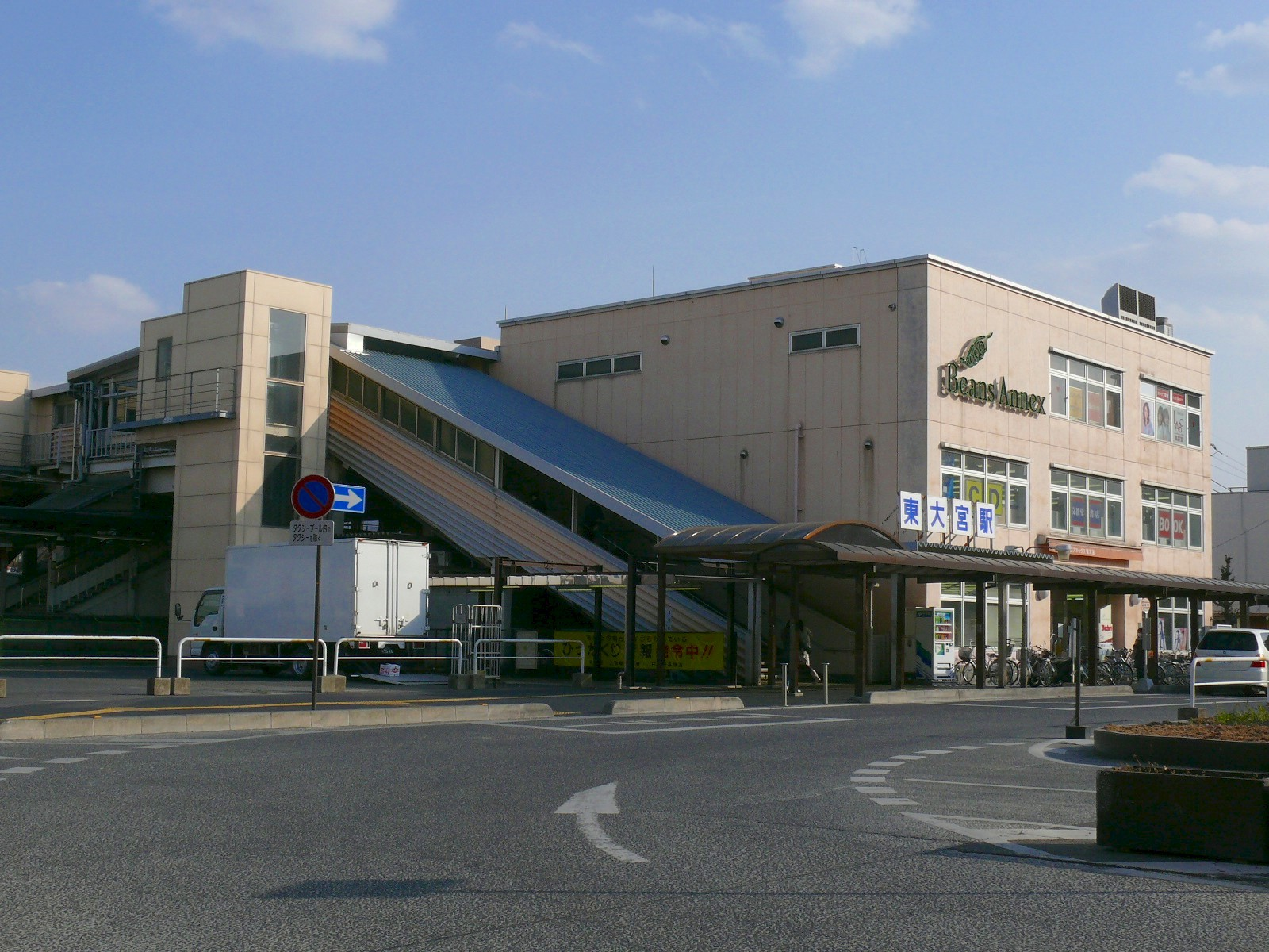 East Japan Railway Higasiōmiya-station-west-exit(Japan,Saitama prefecture,Saitama city). It takes a picture of the station west exit of Higasiōmiya Station in the JR Utsunomiya line from the public road. See also Ja:東大宮駅 for more information(written in Japanese). JR宇都宮線(東北本線)東大宮駅の西口。 公道より撮影。 駅の所在地は埼玉県さいたま市見沼区東大宮。